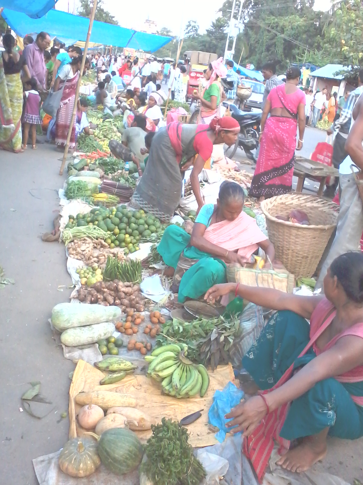 Tribal woman selling locally produced vegetables in Beltola Market. Took the photograph on 9 September, 2012